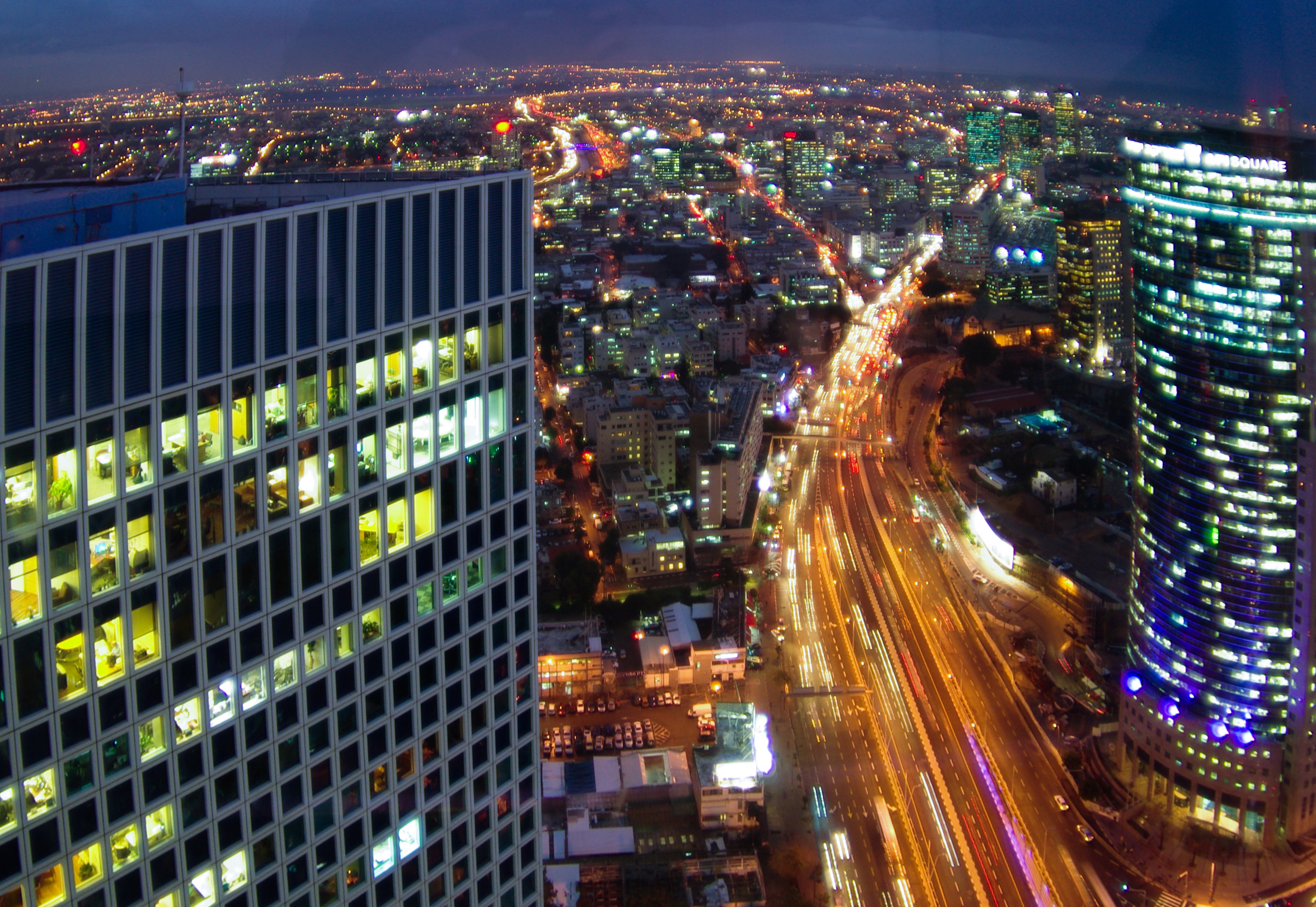 Azrieli Center, Tel Aviv, Israel.